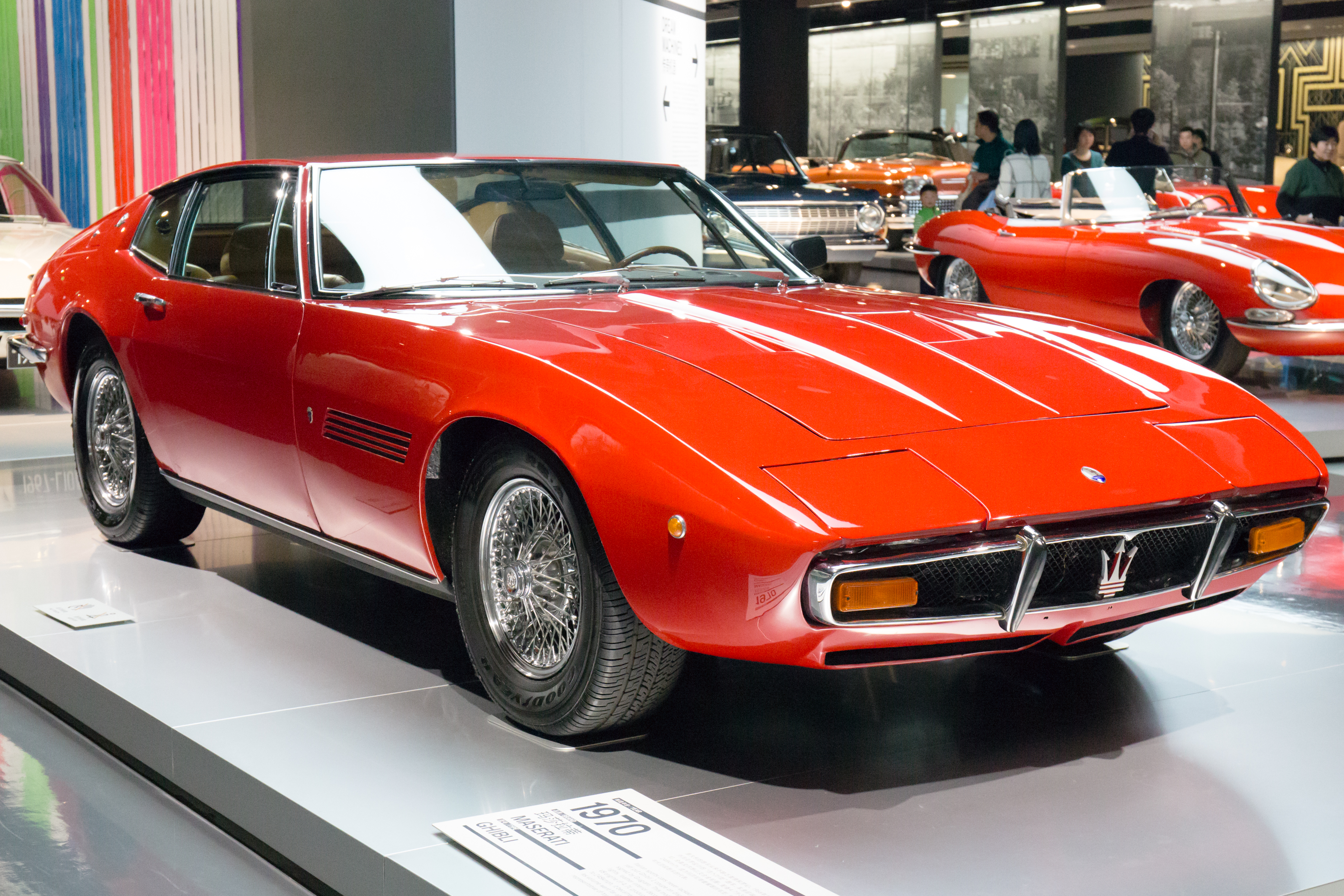 1970 Maserati Ghibli